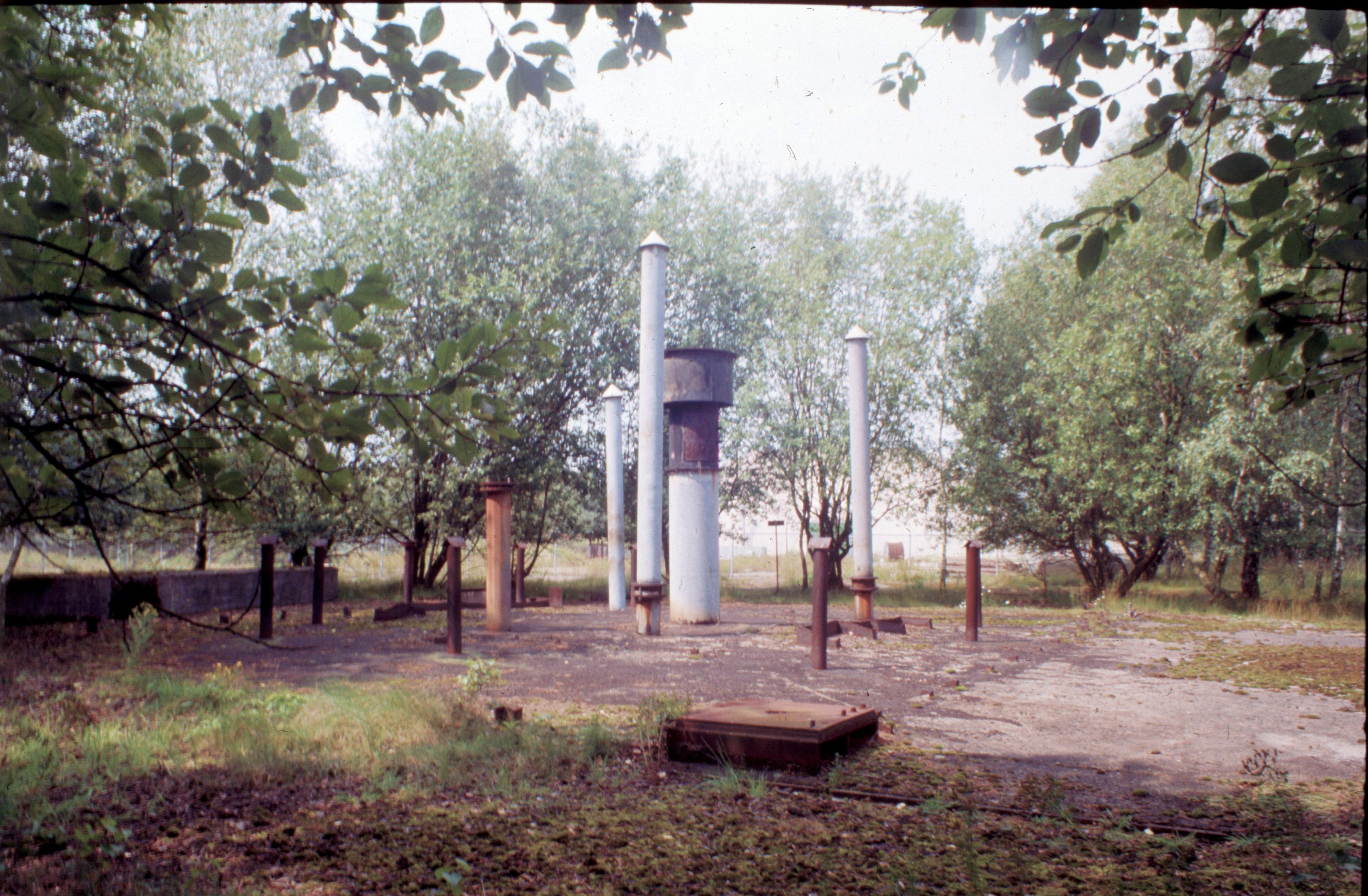 South shaft location of abandoned Beatrix coal mine, Meinweg, Herkenbosch, The Netherlands